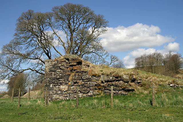 Remains of Mangerton Tower, Clan Armstrong